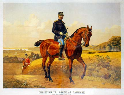 A reproduction of Otto Bache's equestrian portrait of Christian IX of Denmark brought as an art supplement to the weekly magazine Illustreret Familie Journal in 1897 (publisher Carl Aller)